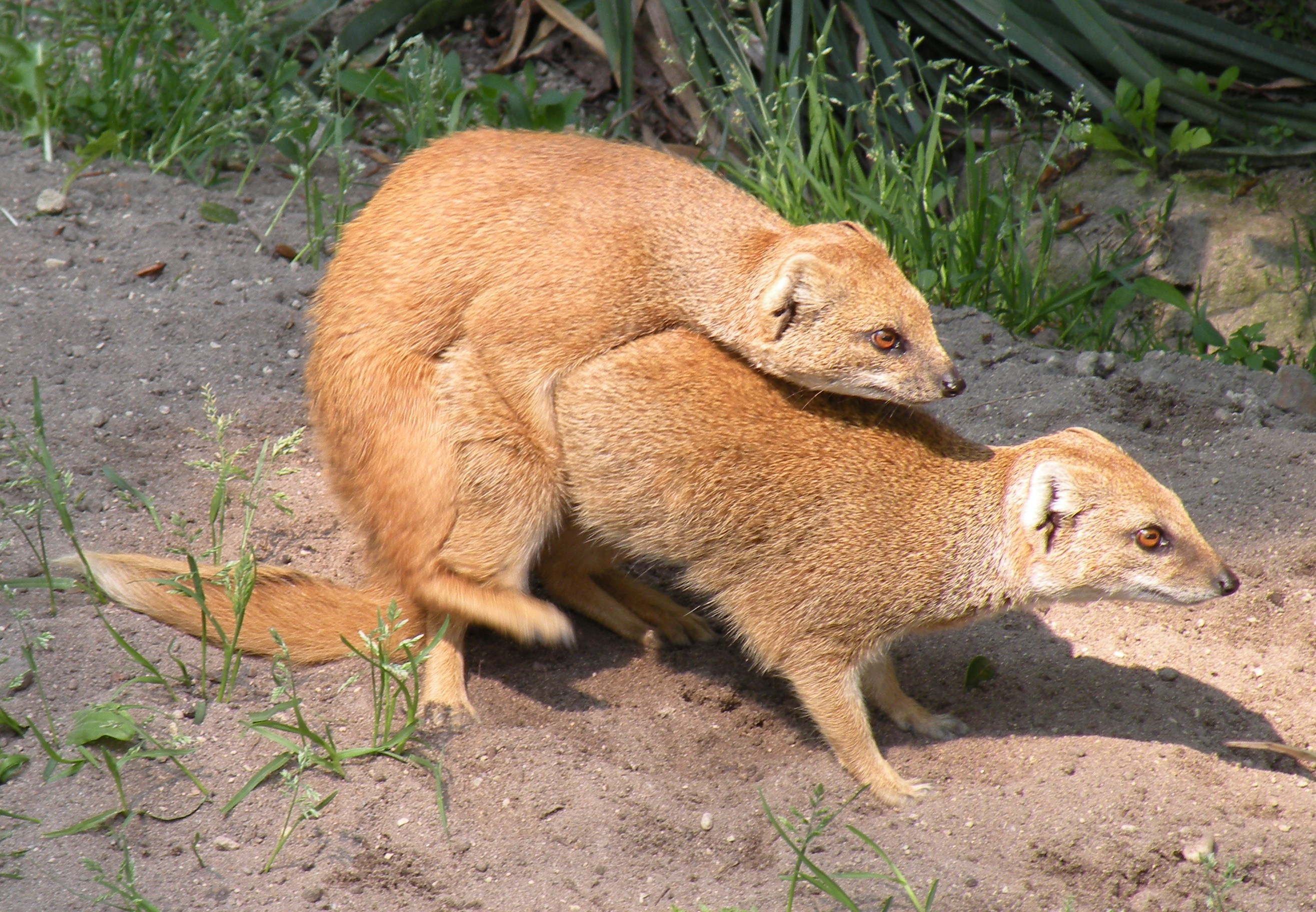 Two Yellow Mongooses (Cynictis penicillata) copulating in Diergaarde Blijdorp (Rotterdam Zoo)